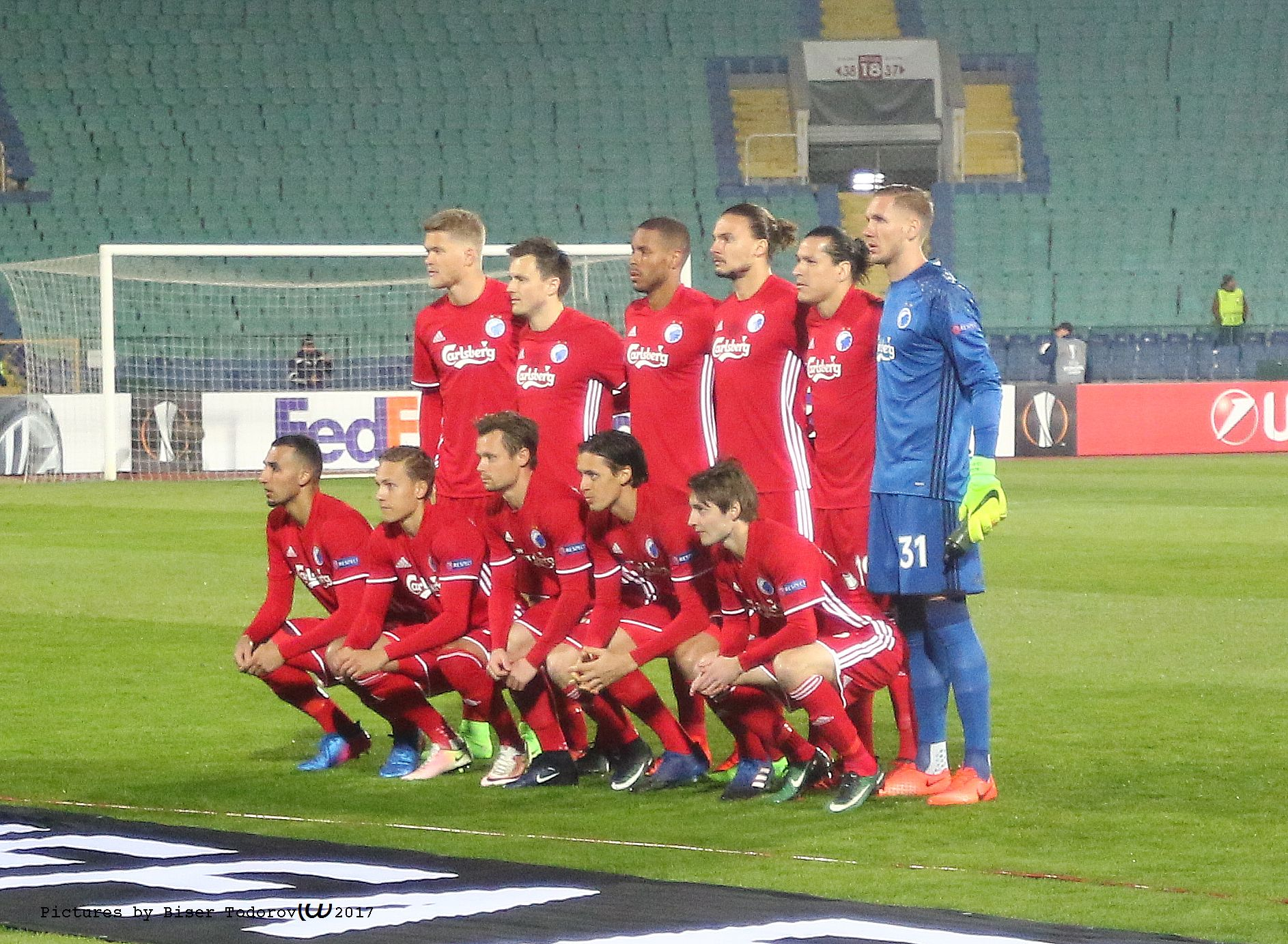 Football Club Copenhagen (Danish: F.C. København, or FCK in short) (Danish pronunciation: [kʰøb̥m̩ˈhɑʊ̯ˀn]) is a professional Danish football club in Copenhagen, Denmark. F.C. Copenhagen is the most successful club in the history of Danish football having won the Danish Football Championship eleven times, and the Danish Cup seven times